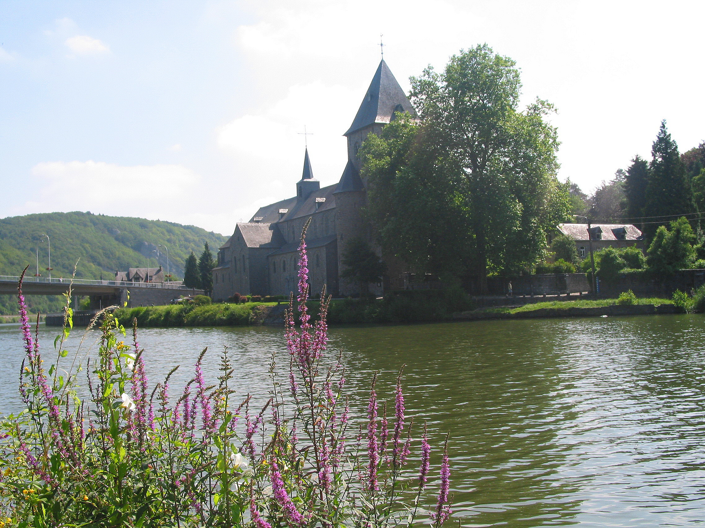 Hastière-par-Delà (Belgium), the St. Peter Abbey church (1033-1035) and the Meuse River.